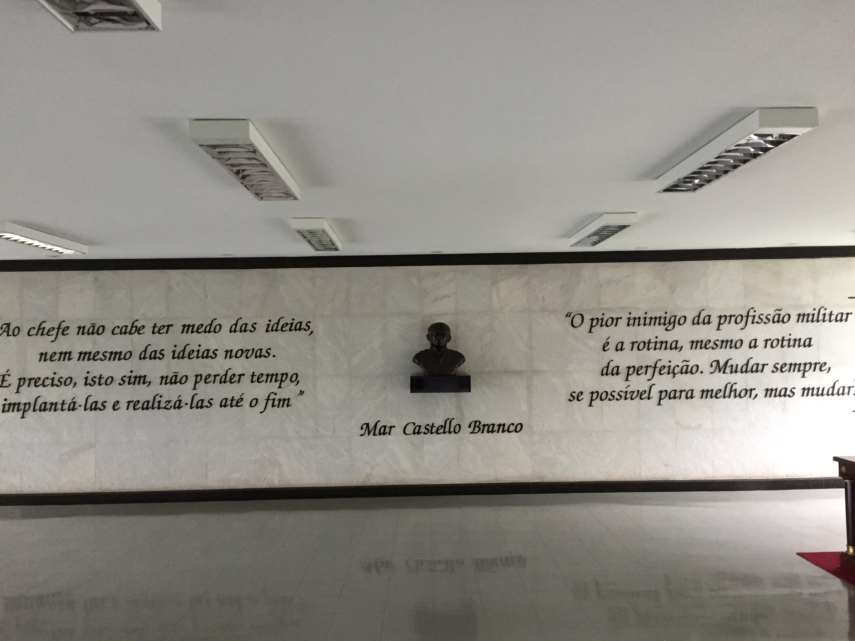 Tribute to Marshall Humberto de Alencar Castello Branco, former Brazilian President, in Brazilian Army HQ, Brasília.